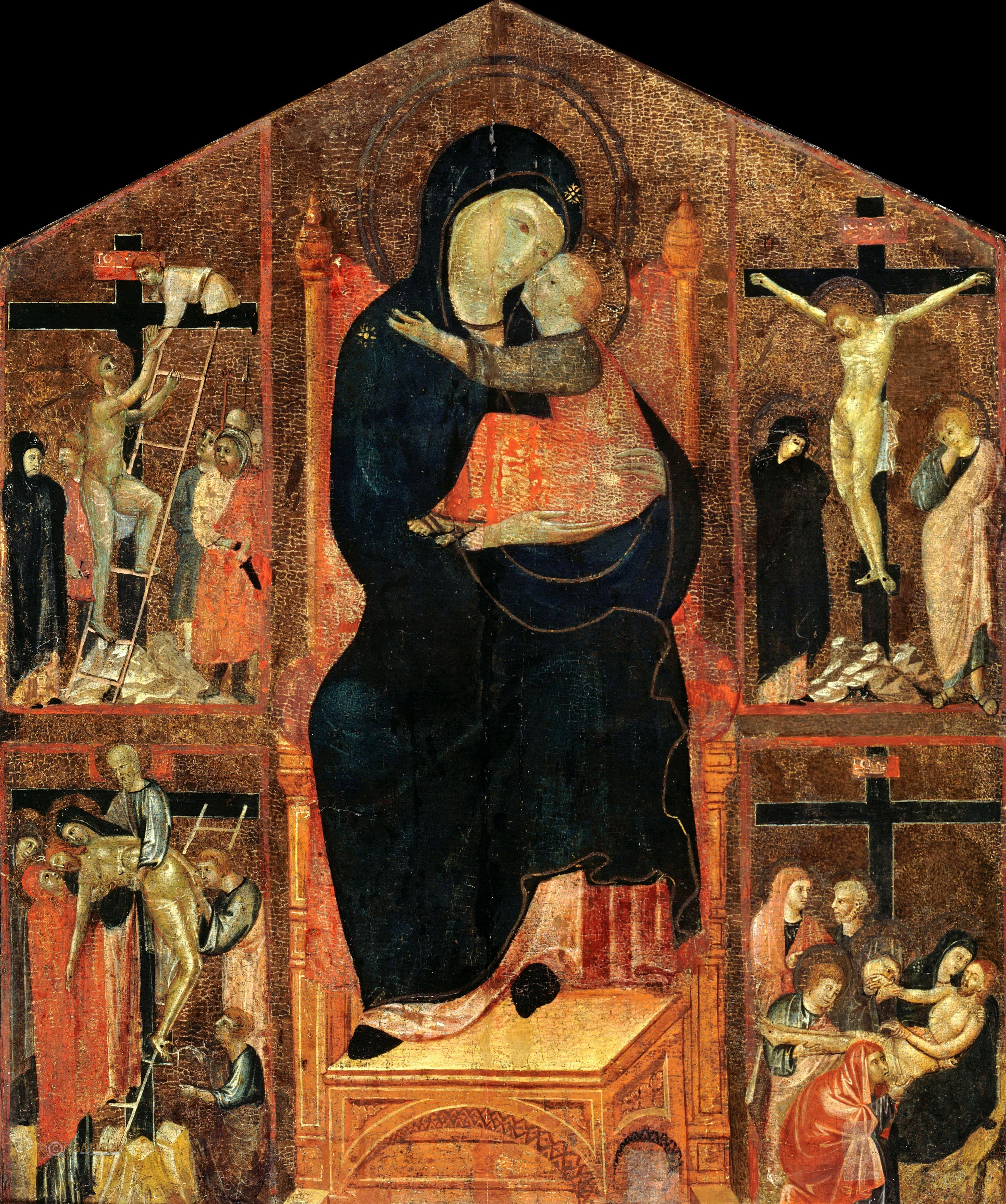 Enthroned Madonna with Child and Scenes from the Passion of Christ.